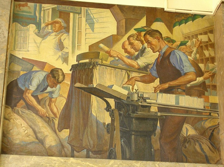 Treasury Section of Painting and Sculpture mural "Stagecoach and Modern Transportation" (1937) by Robert Lambdin in the Main Post Office, Bridgeport, Connecticut More information at The Living New Deal